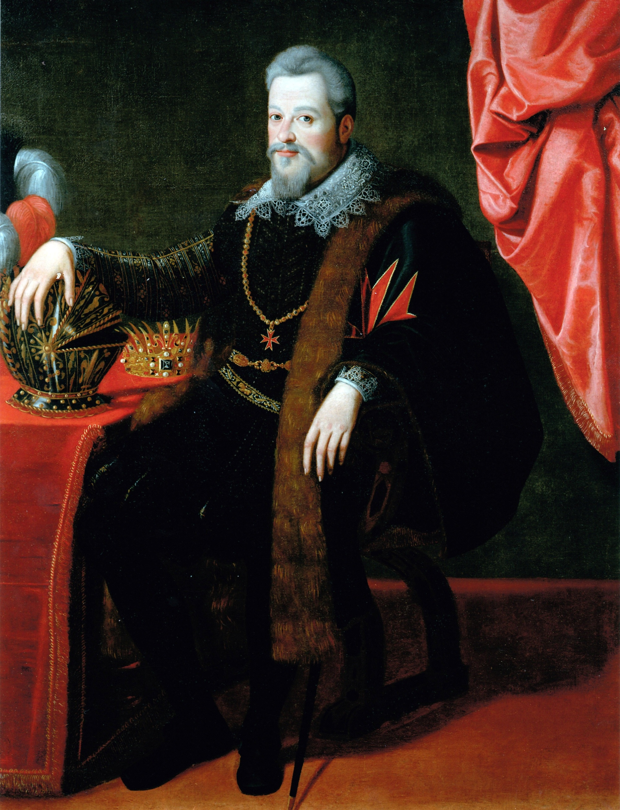 Portrait of Ferdinando I de' Medici, Grand Duke of Tuscany (1549-1609)